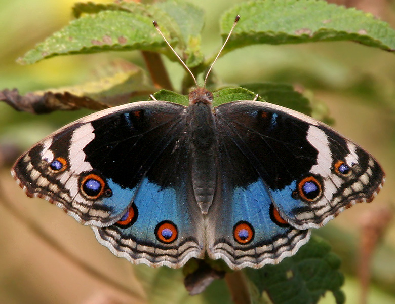 Blue Pansy Junonia orithya in Hyderabad, India.